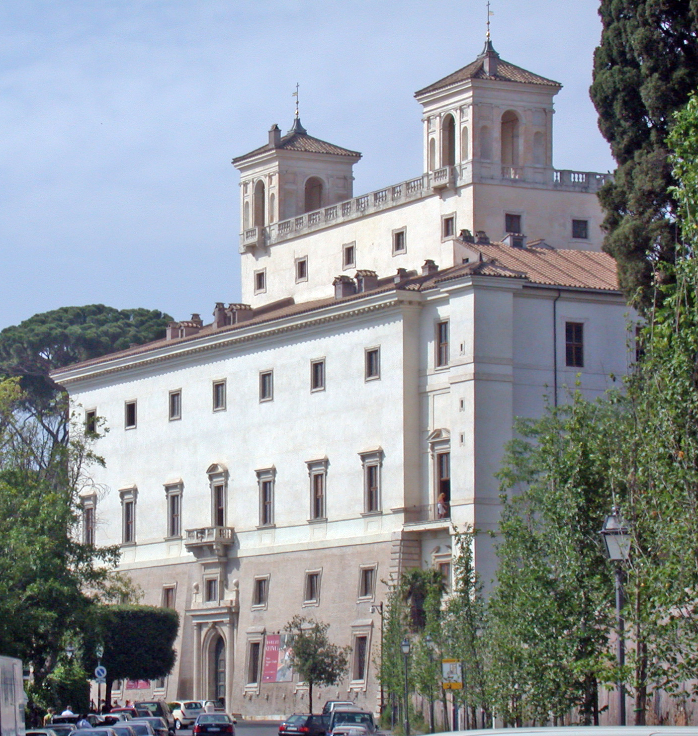 Rome, Villa Medici.Taken from the church of Trinità dei Monti.Personal photo (june 2005) by MM in it.wiki